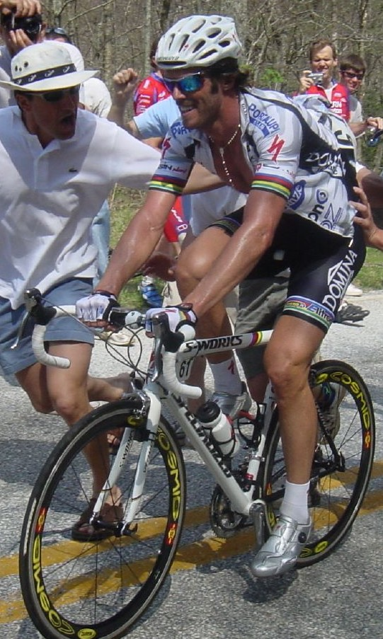 Mario Cipollini didn't have to do much pedaling to get to the top of Brasstown bald during the 2004 Tour de Georgia.